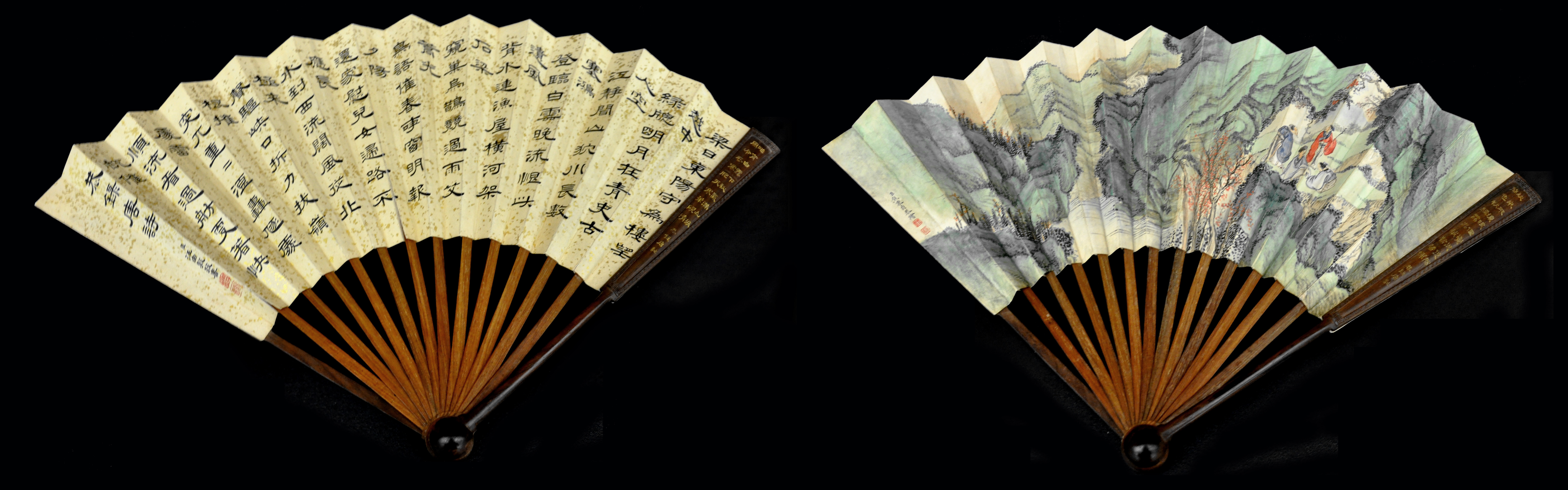 Fans: The four venerable men of Mount Shang (商山四皓); Museum Rietberg, Zurich; donation of Charles A. Drenowatz; Inv. no. RCH 1164a–b